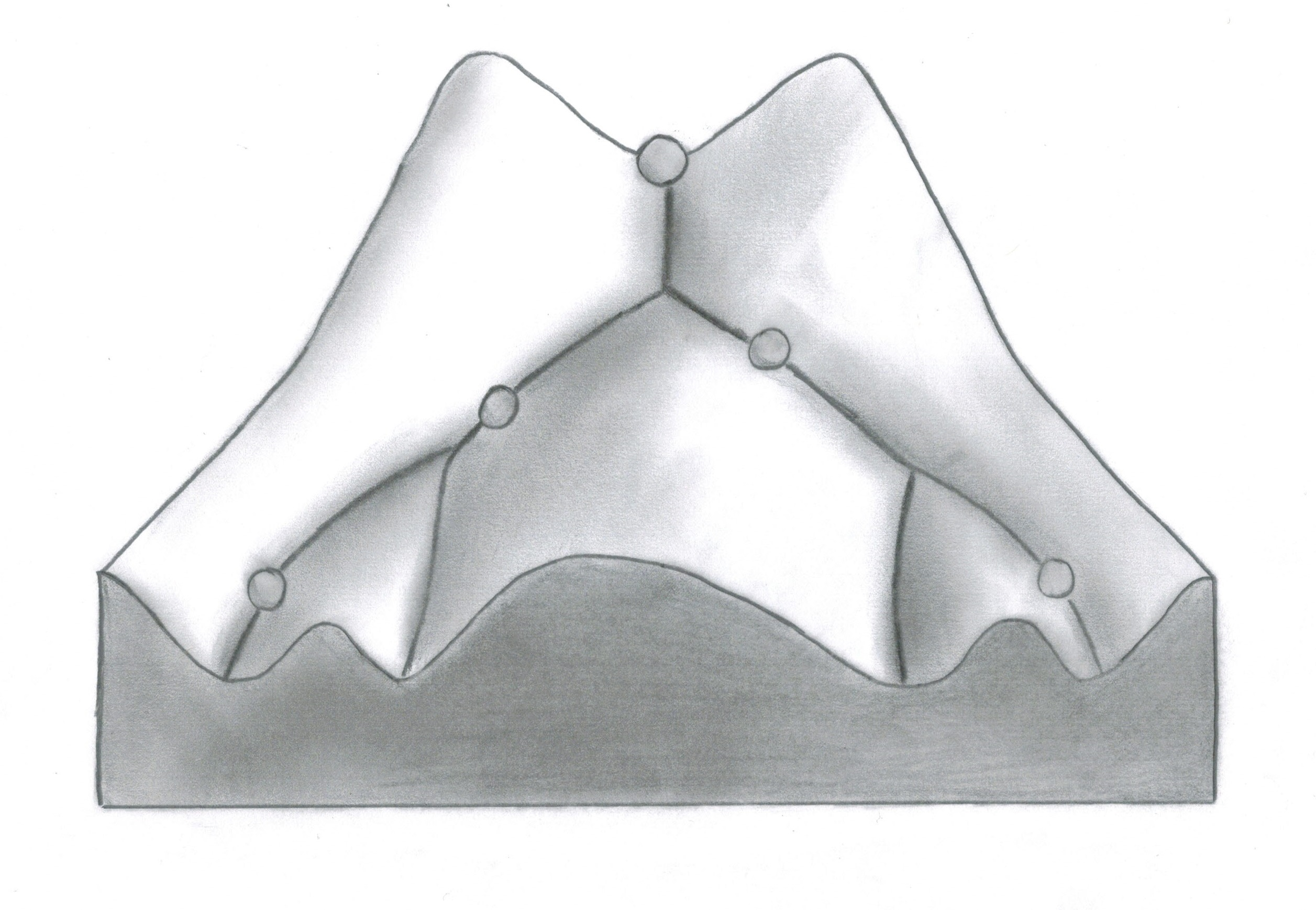 Epigenetic landscape